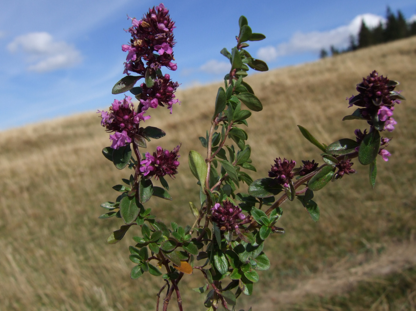 Thymus alpestris (pl. macierzanka halna)